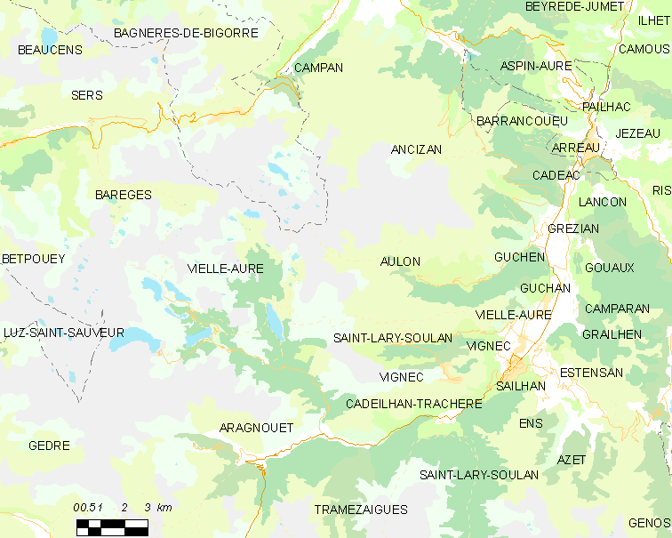 Map of French municipality